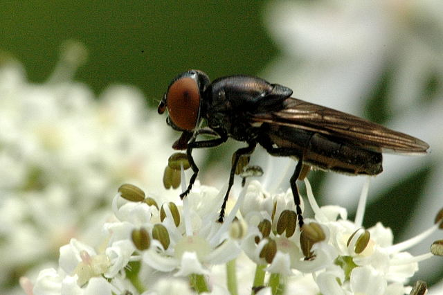 Picture taken in Commanster, Belgian High Ardennes . Species: Chrysogaster solstitialis